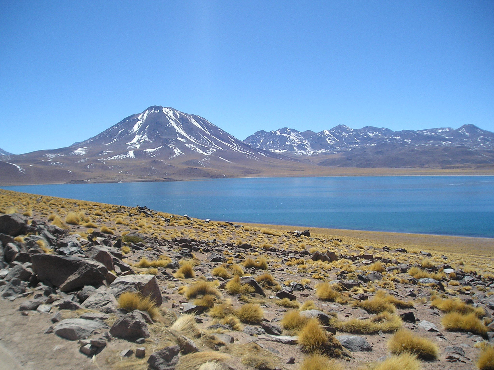 Laguna Miscanti and Cerro Miscanti (the highest mountain, just behid the laguna), south of San Pedro de Atacama, Chilean Altiplano